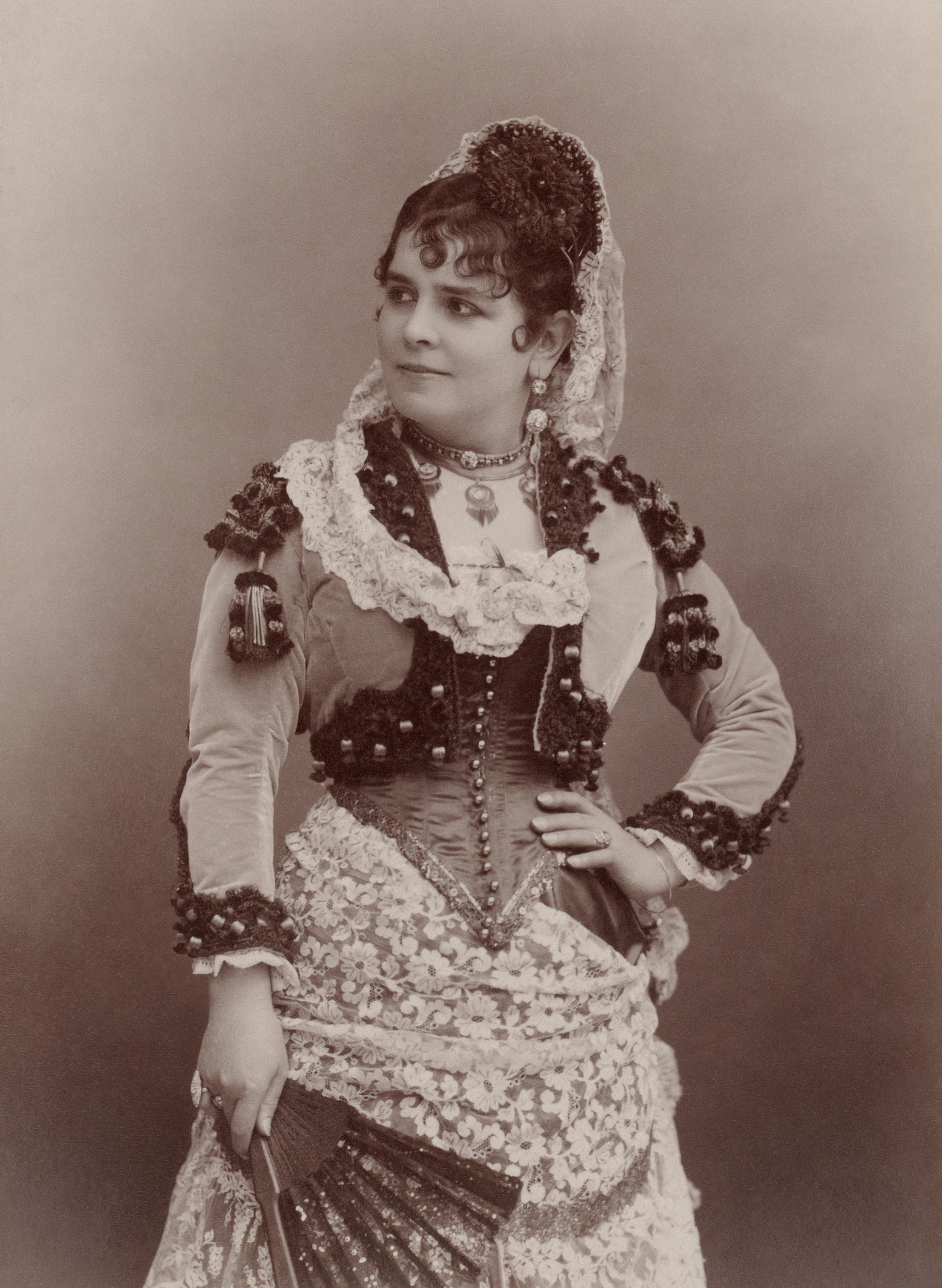 Célestine Galli-Marié, creator of the title role in Bizet's Carmen, dressed for that role.